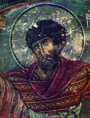 Fragment of the mural depiction of St. Theodore Stratelates from the Iprari church, Georgia, executed by Tevdore in 1096.